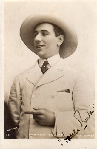 Postcard of Farren Soutar (1870–1962)